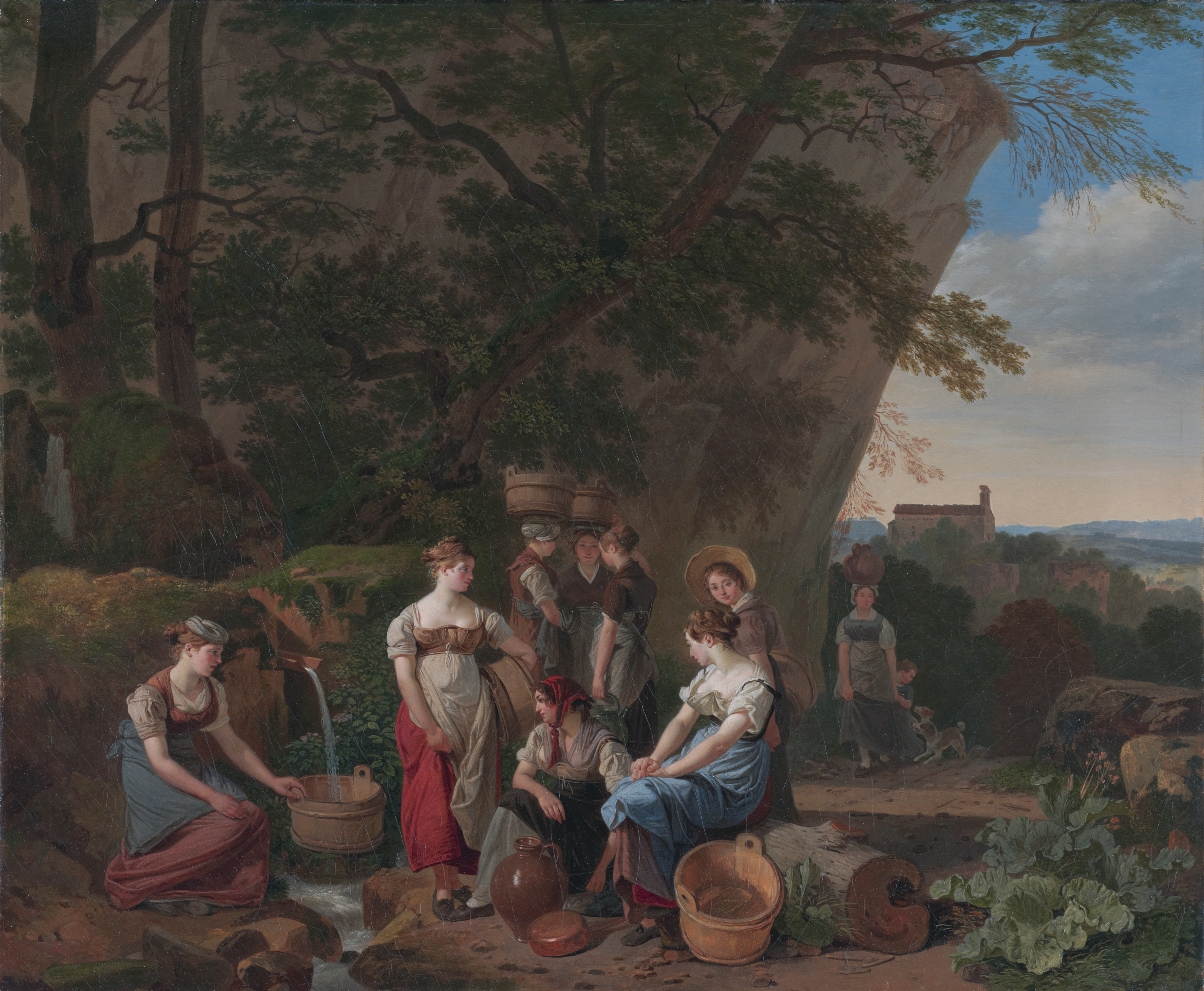 Young women near a fountain oil on canvas 56 x 67 cm signed b.l.